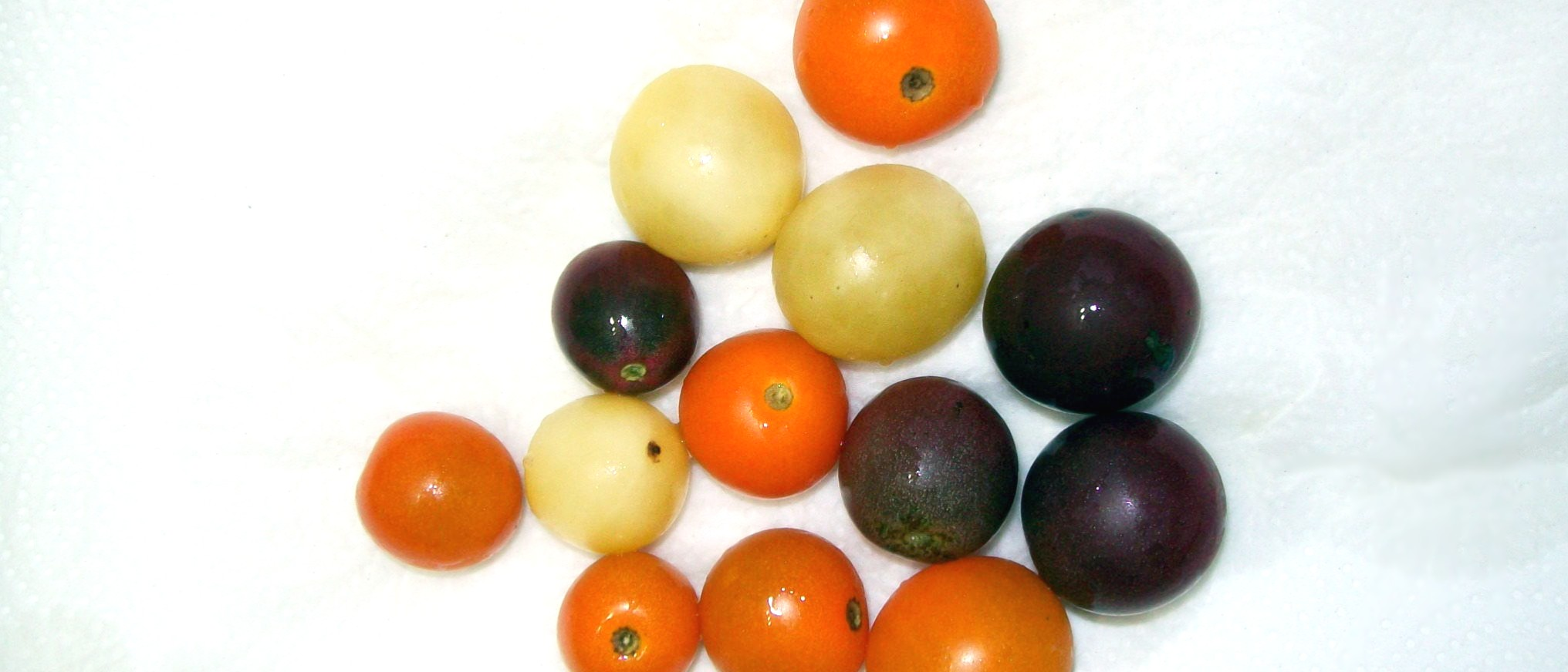 Grape tomatoes, various colors upon ripening.